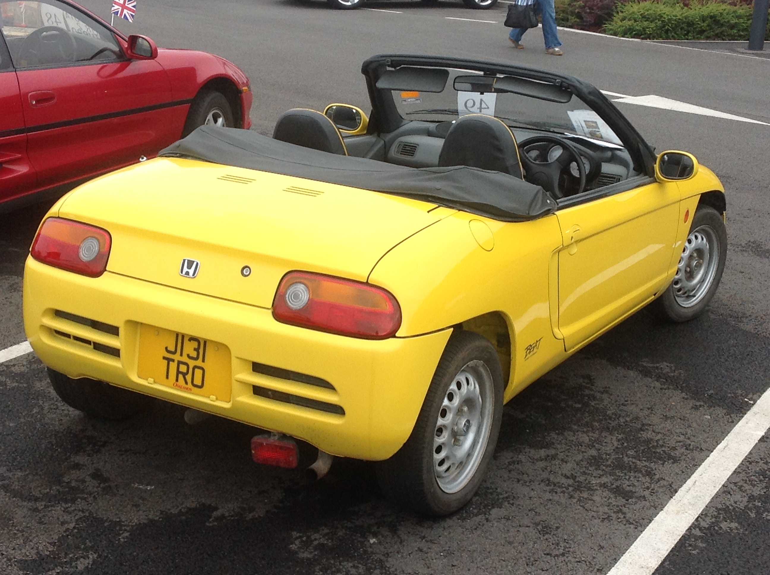 Rare Breeds, Haynes Motor Museum, Sparkford, Somerset